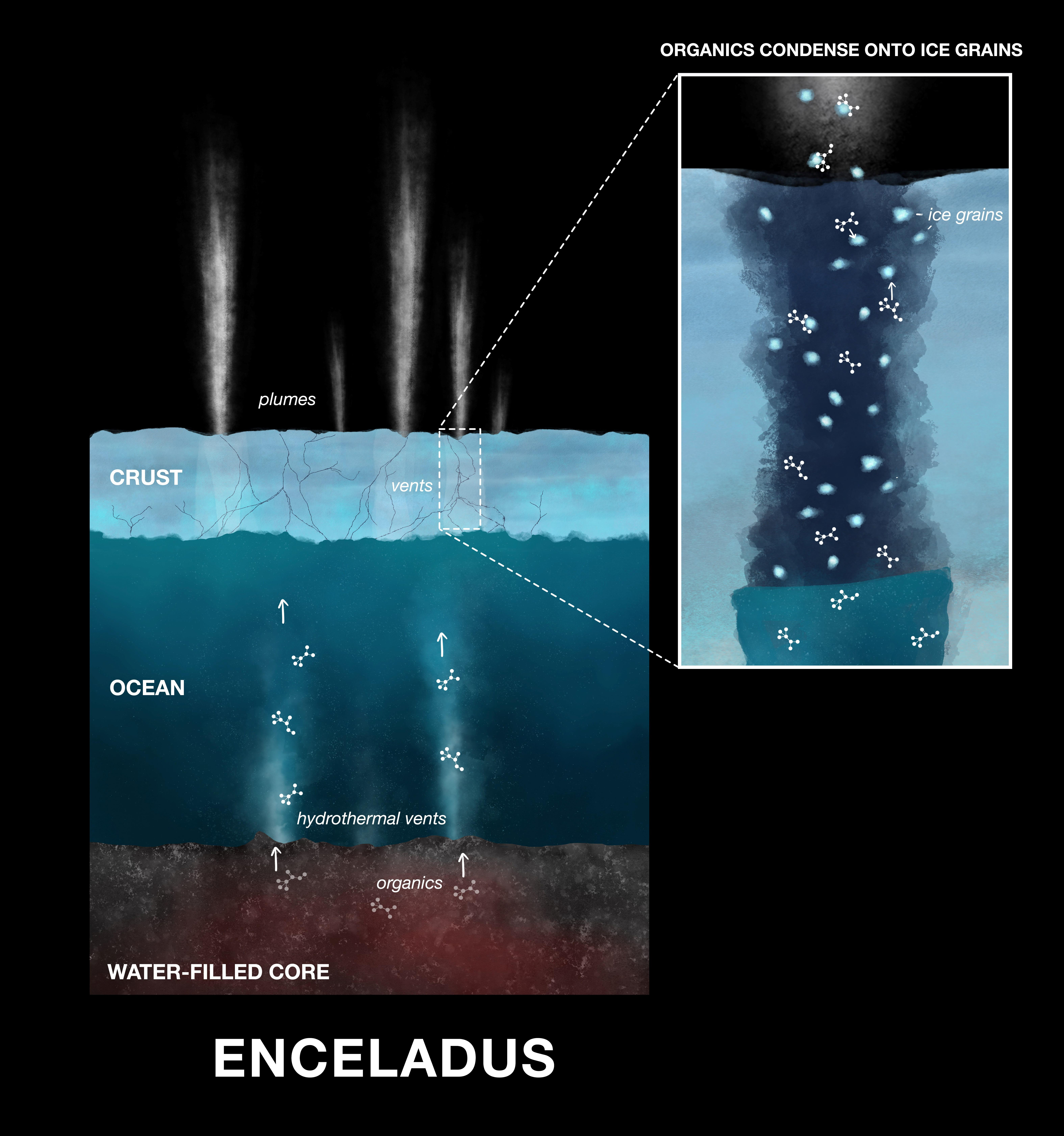 PIA23173: Enceladus Organics on Grains of Ice (Illustration) This illustration shows how newly discovered organic compounds — the ingredients of amino acids — were detected by NASA's Cassini spacecraft in the ice grains emitted from Saturn's moon Enceladus. Powerful hydrothermal vents eject material from Enceladus' core into the moon's massive subsurface ocean. After mixing with the water, the material is released into space as water vapor and ice grains. Condensed onto the ice grains are nitrogen- and oxygen-bearing organic compounds. On Earth hydrothermal vents on the ocean floor provide the energy that fuels reactions that produce amino acids, the building blocks of life. Scientists believe Enceladus' hydrothermal vents may operate in the same way, supplying energy that leads to the production of amino acids. For more information about the Cassini-Huygens mission visit and